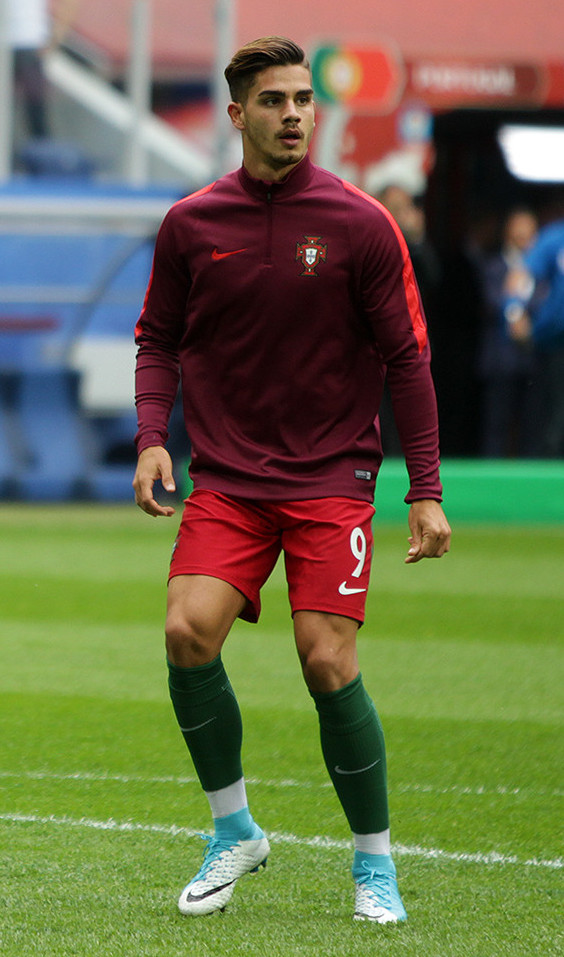 New Zealand VS. Portugal 0 - 4, 24 June 2017